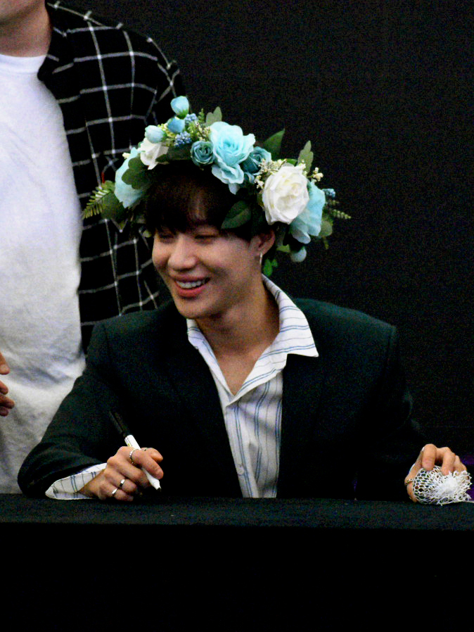 SHINee fansign event at Starfield in Goyang on June 29, 2018.